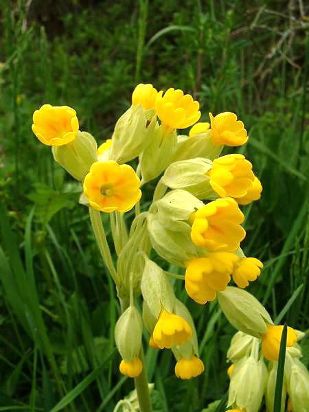 edit by Tournachon of this image by Jeffdelonge